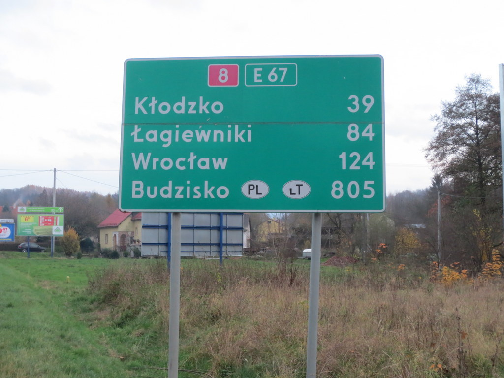 Distance sign on E 67 near Náchod.